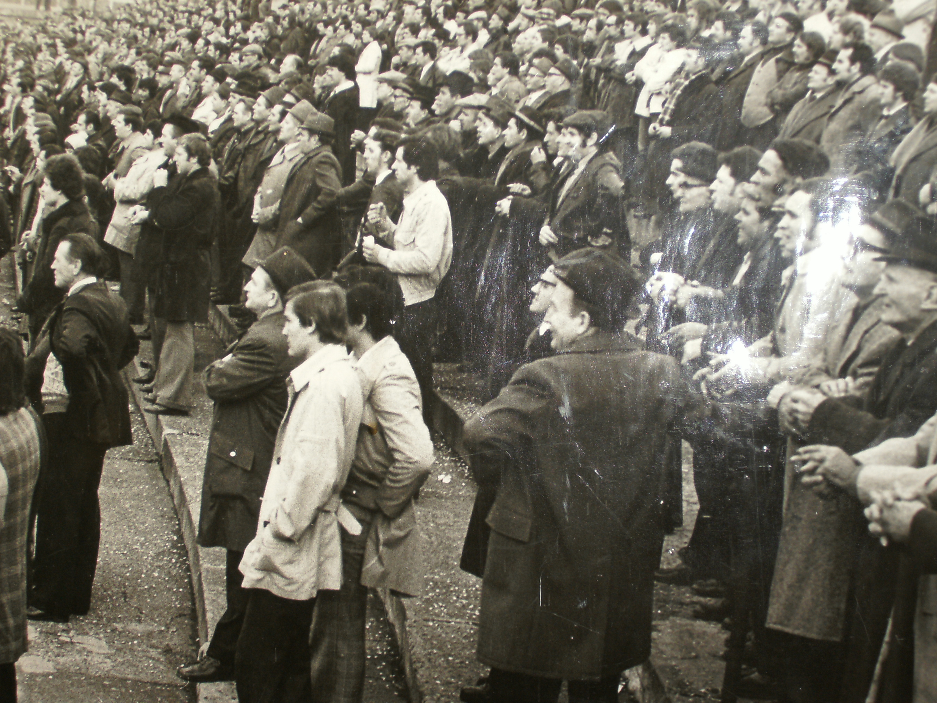 Lots of fans were in the stadium anytime